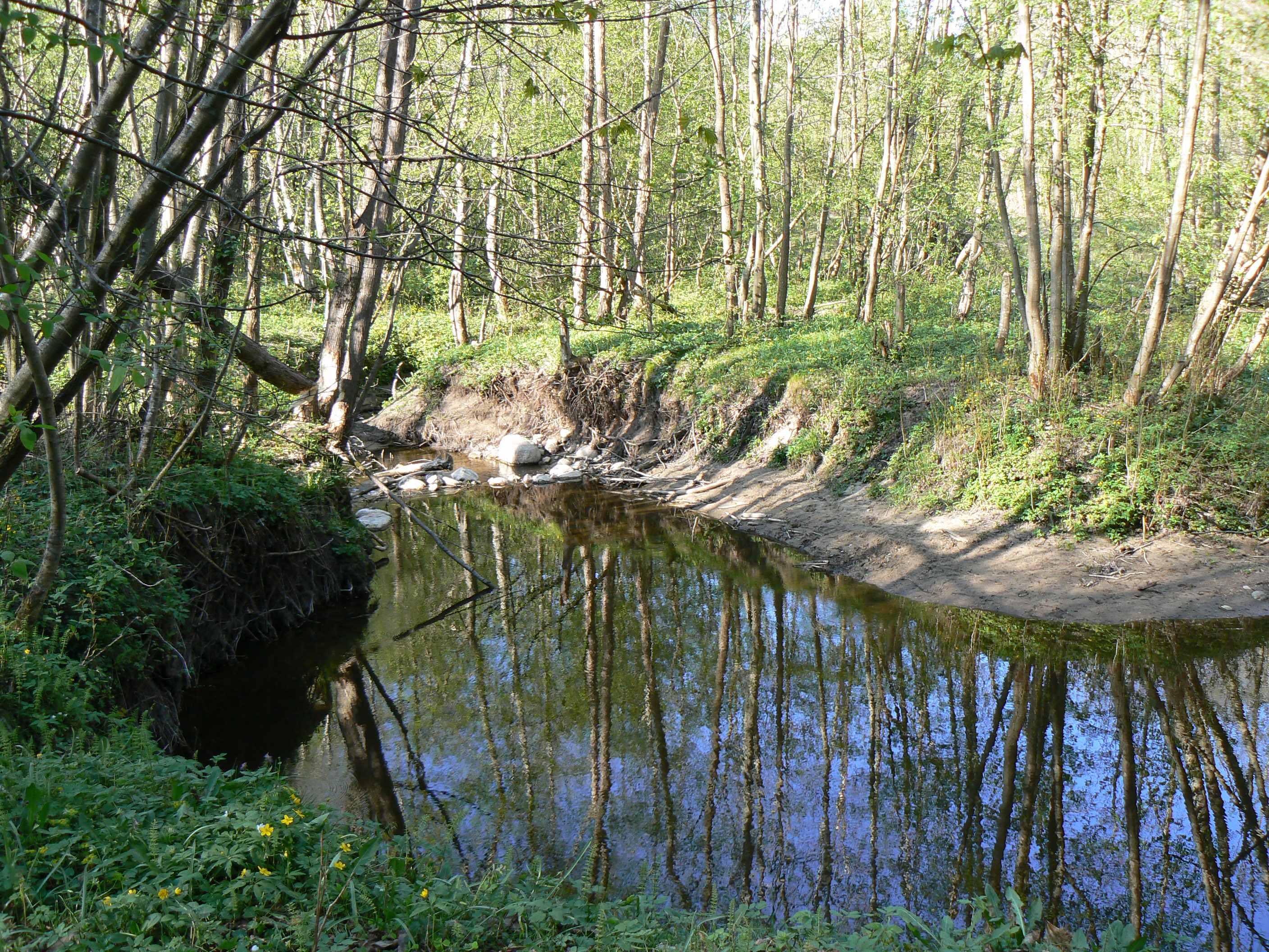 Akmenynas in Varsėdžiai